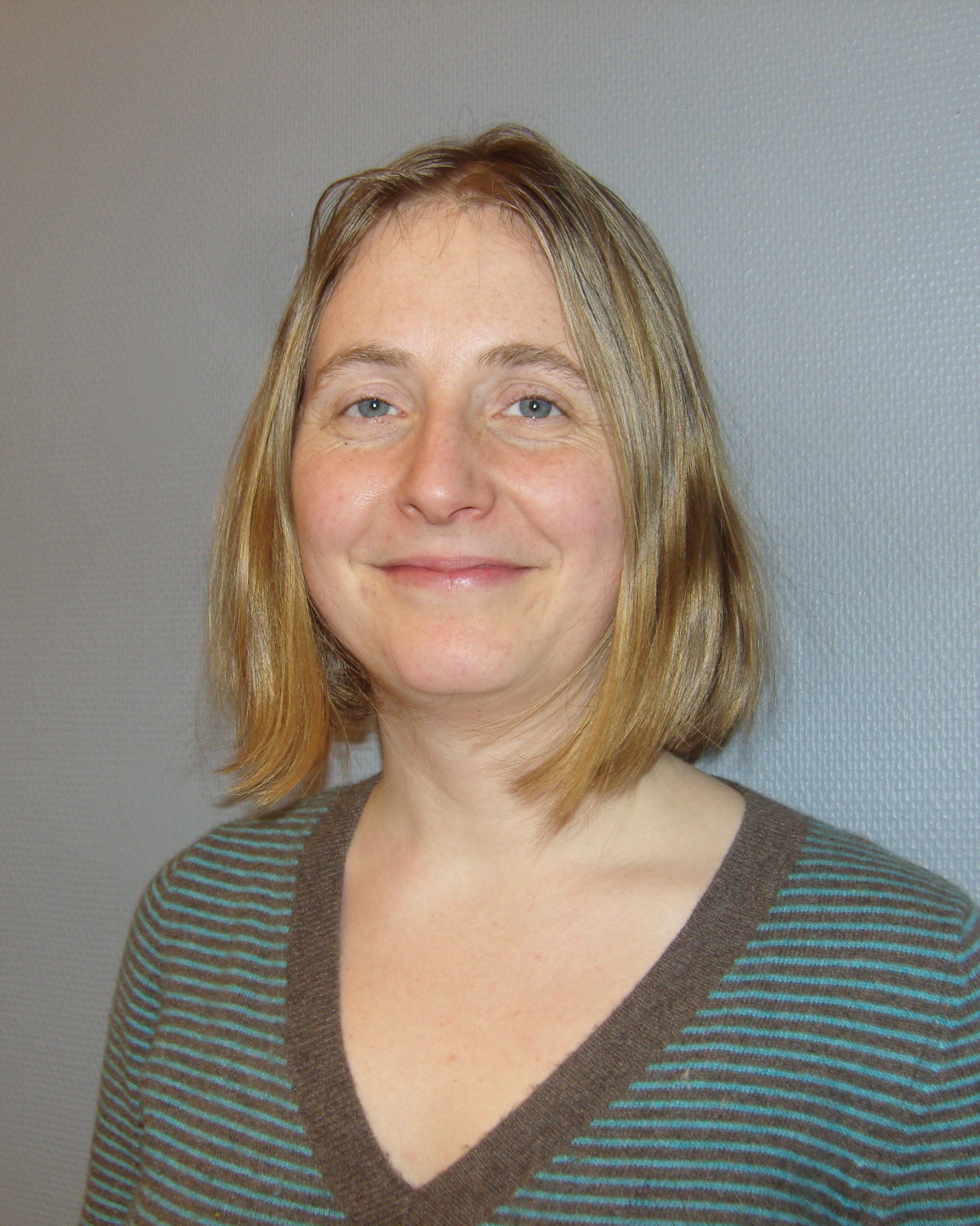 Norwegian Author Hilde Hagerup